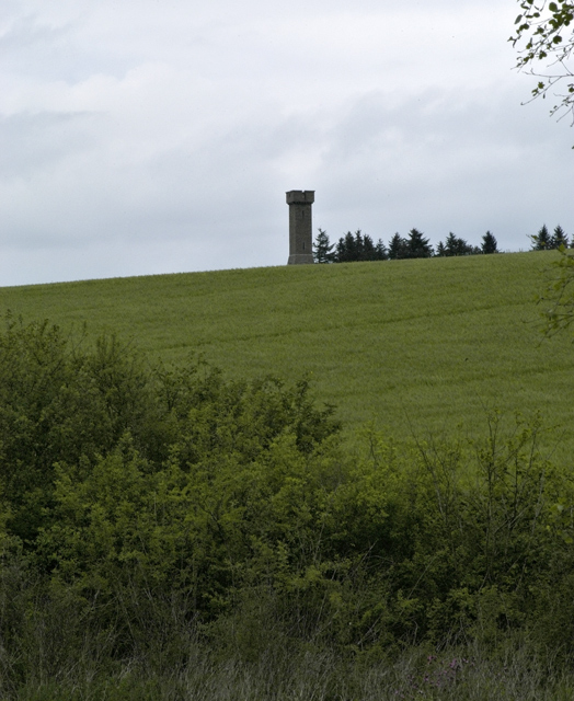 Monument near Ythsie. This monument stands atop a hill near to the Aberdeenshire hamlet of North Ythsie. Googling suggests it commemorates George Hamilton, 4th Earl of Aberdeen and UK Prime Minister